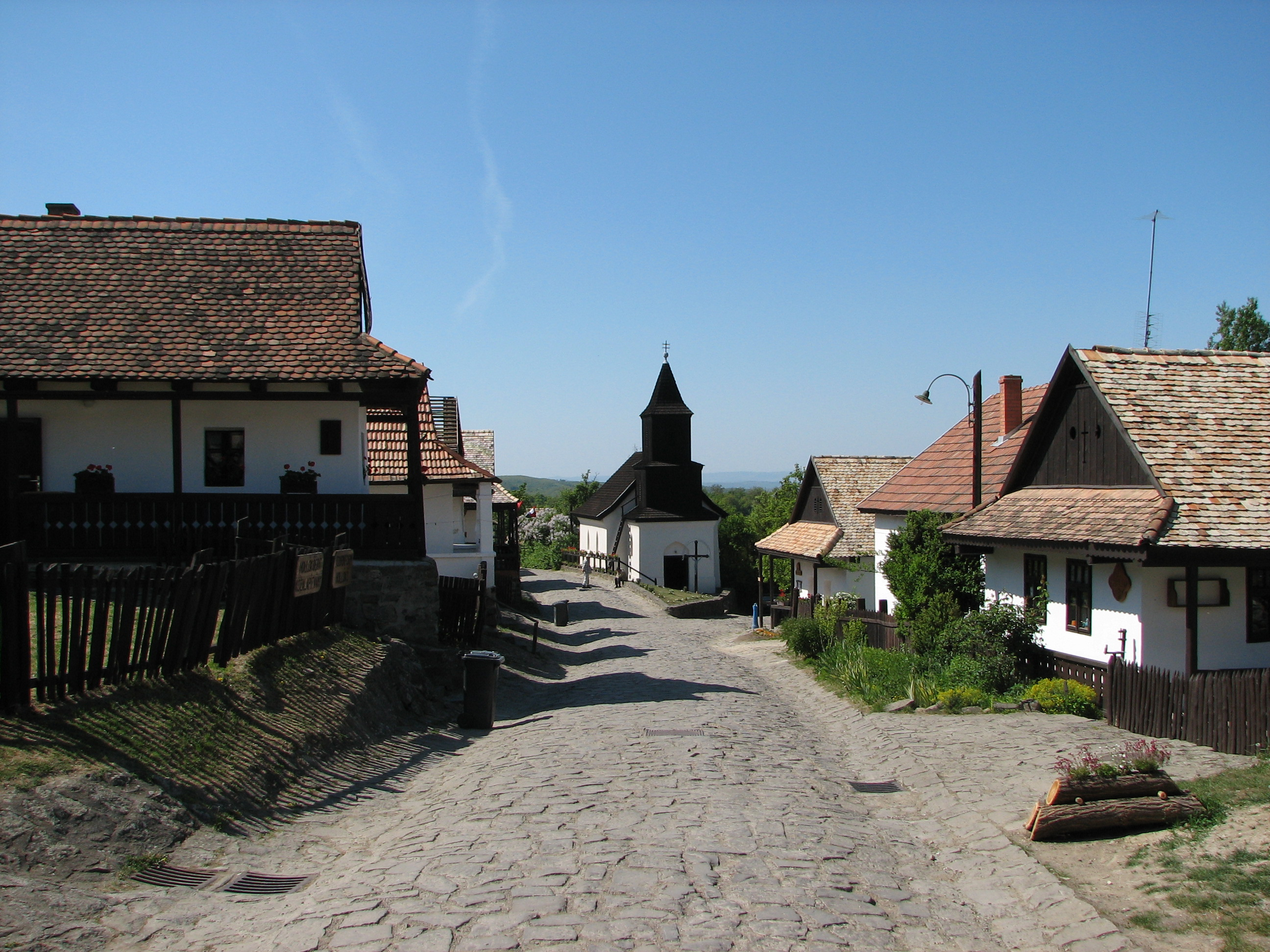 Hollókő, Hungary. Historical old village, Kossuth Lajos street (detail)